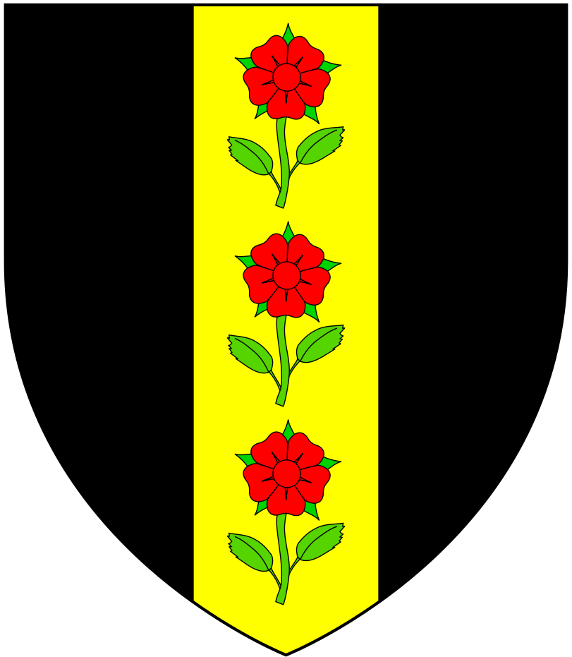 Canting arms of Rose of Wootton House in the parish of Wootton Fitzpaine in Dorset: Sable, on a pale or three roses gules slipt and leaved proper. Thomas Rose (1679-1747) of Wootton Fitzpaine was Sheriff of Dorset in 1715. (Roberts, George, History and Antiquities of the Borough of Lyme Regis and Charmouth, p.299)